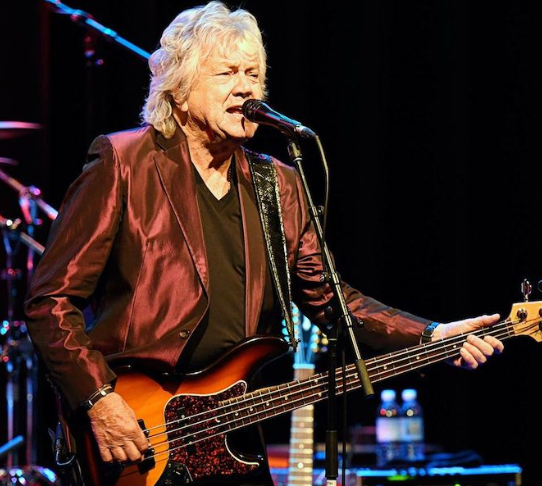 John Lodge 2019